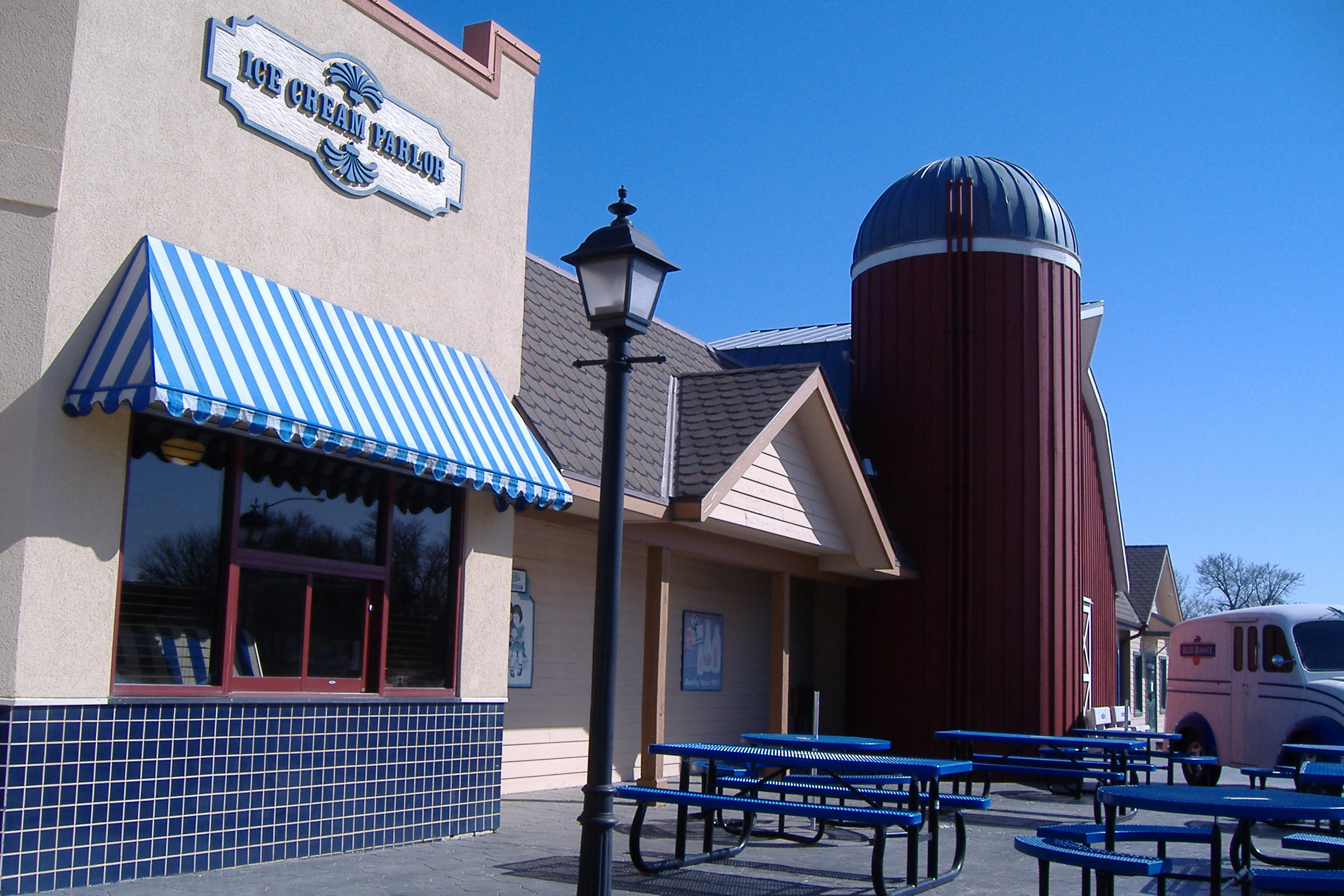 Blue Bunny Ice Cream Parlor and Museum